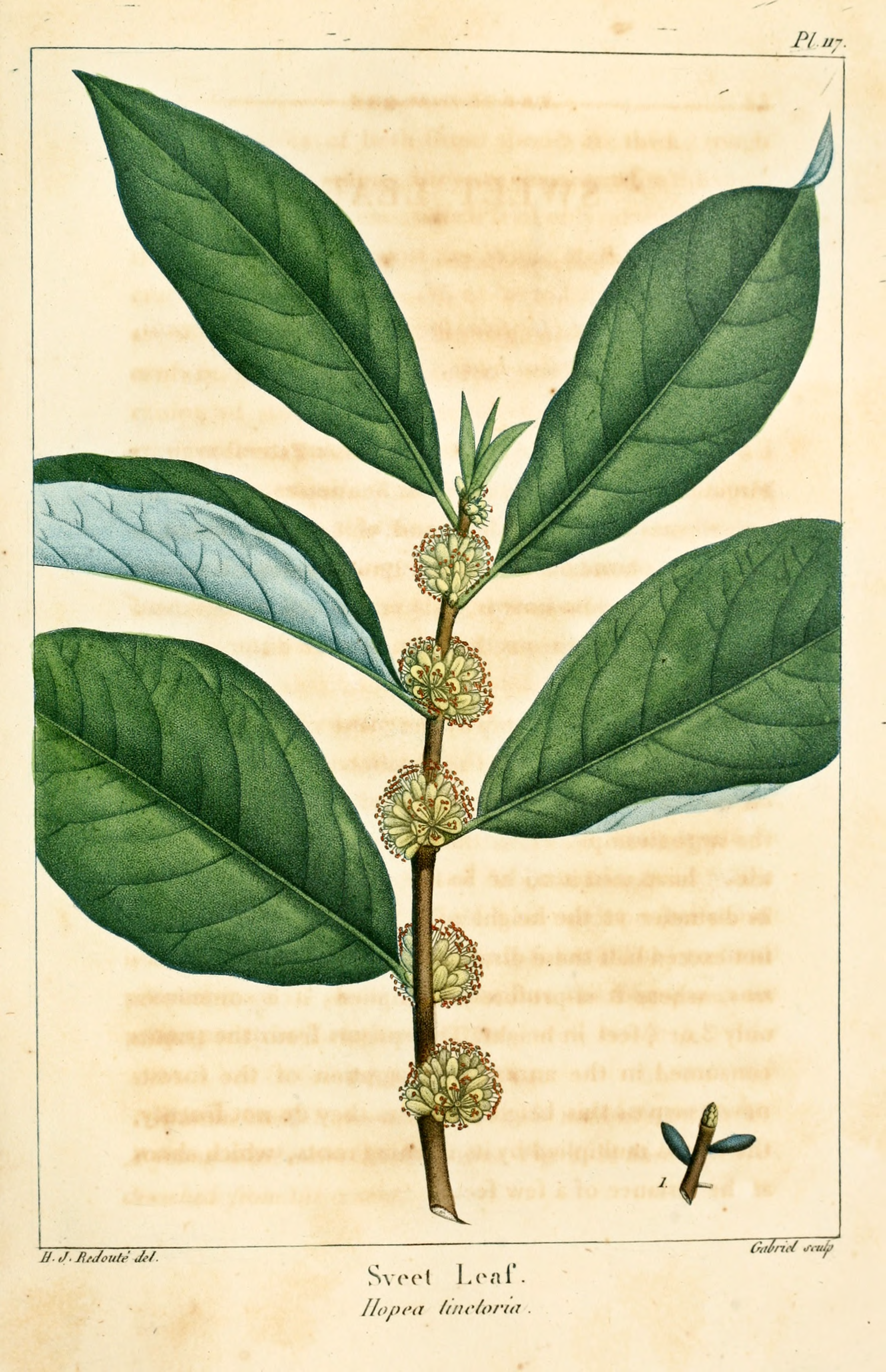 Plate xxx from The North American Sylva: Symplocos tinctoria - Common sweetleaf. (Original caption: Hopea tinctoria - Sweet Leaf.)